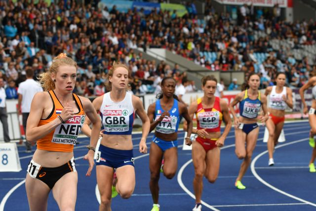 Yusneysi Santiusti (with the Italy jersey) during 2017 European Team Champioships - Super League